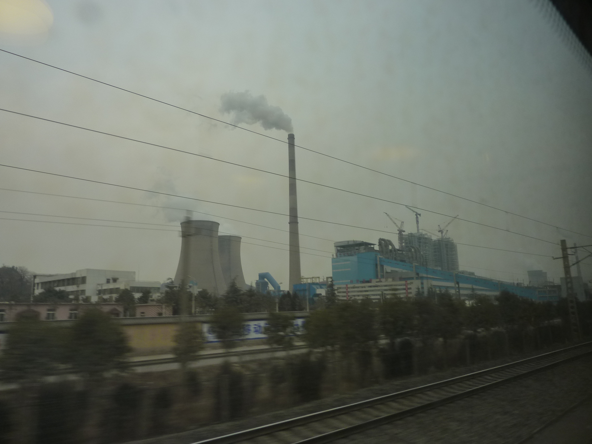 A power plant a few miles norh of Xuzhou, seen from the Beijing-Shanghai (conventional) railway.